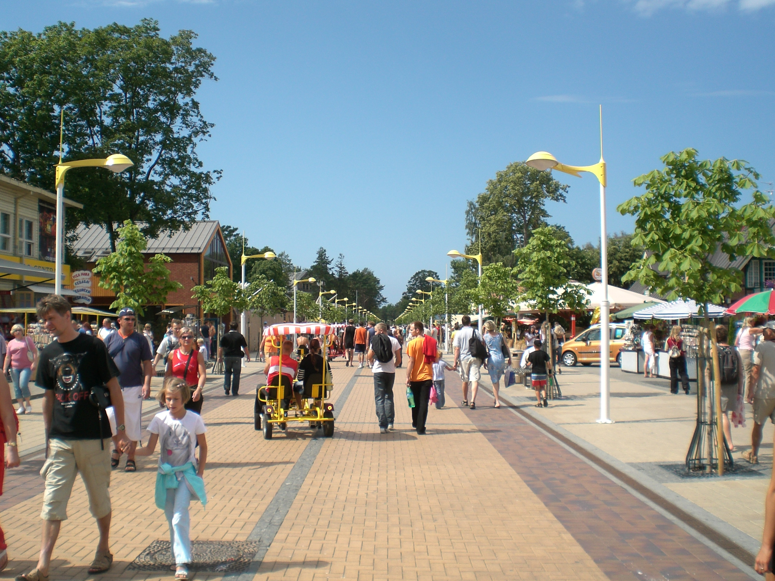 The main street Basanavičiaus gatvė in the Baltic Sea resort Palanga (Lithuania)